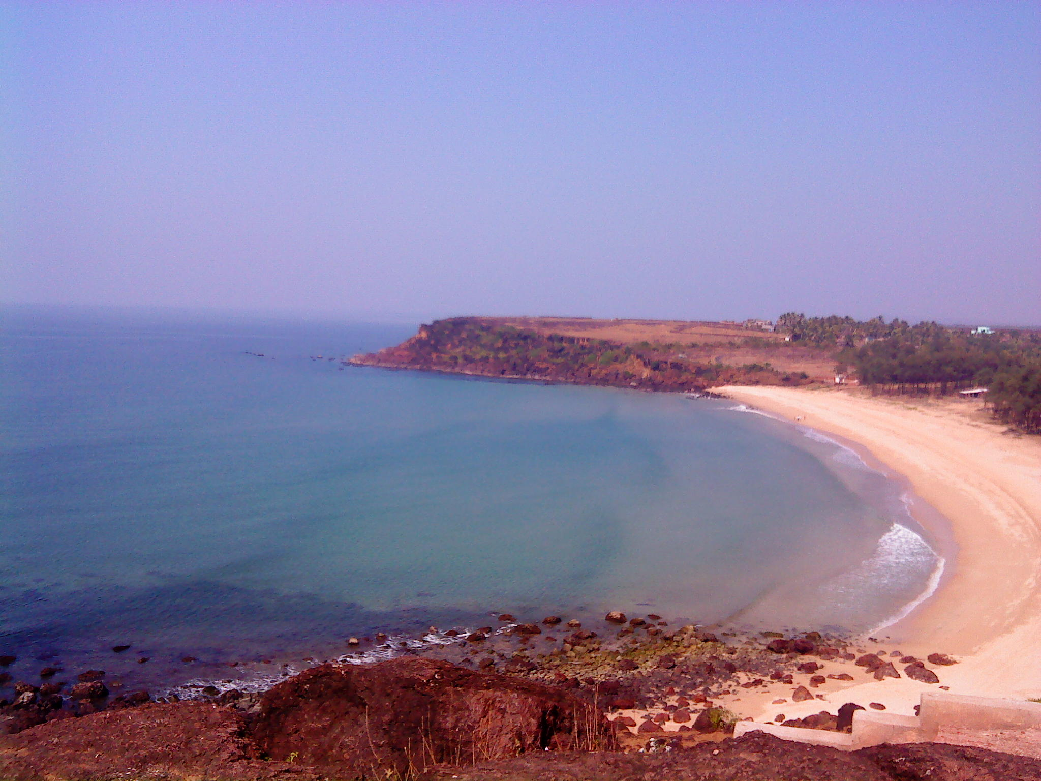 Deogad Beach in Sindhudurg district ,Konkan region Maharashtra, India